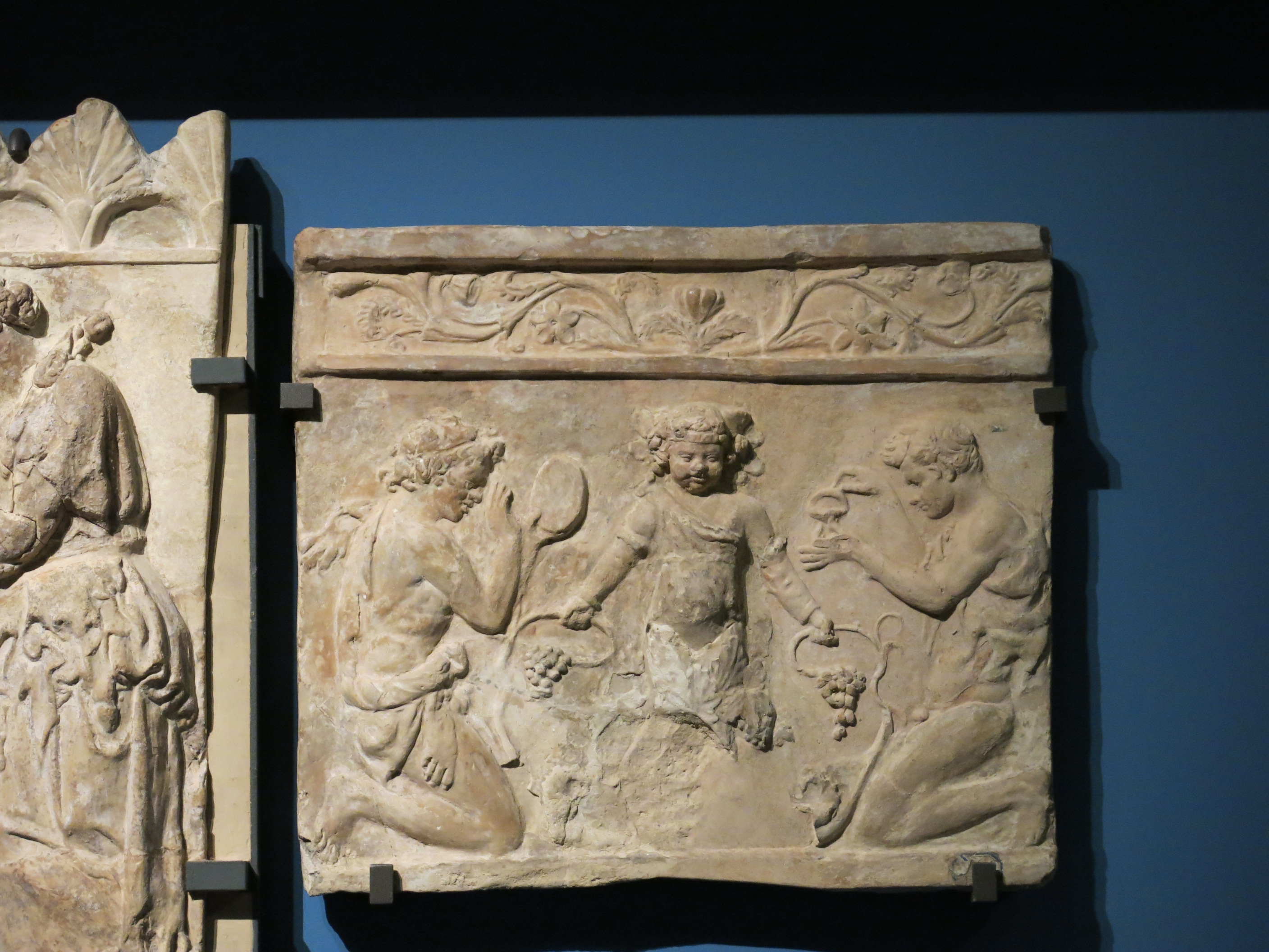 Plaque Campana - Dyonisos as child between two satyrs. 1st half of the 1st century BC. Terracotta. Campana collection purchase 1861. Louvre museum (Paris, France).